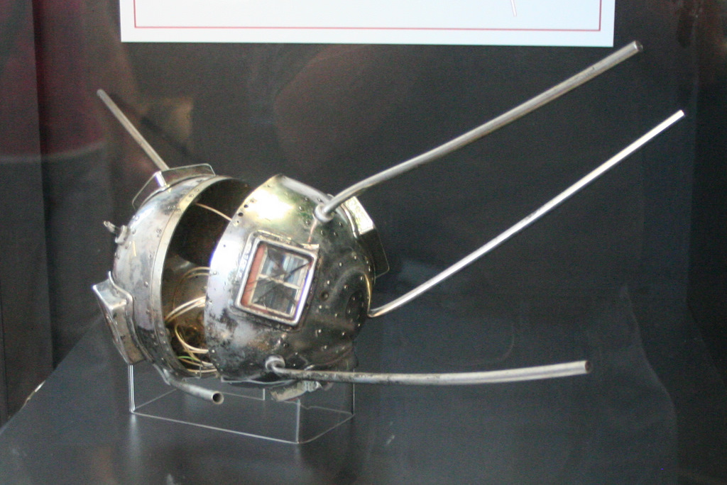 Remains of TV-3 satellite on display at the National Air and Space Museum.